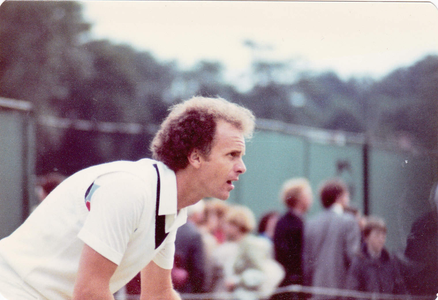 Ray Moore Wimbledon circa 1985